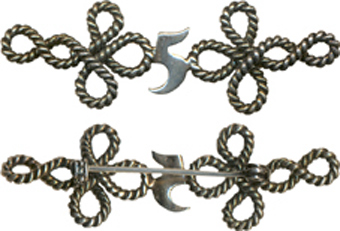 5th Regiment Hassard, brush wives, silver (France).